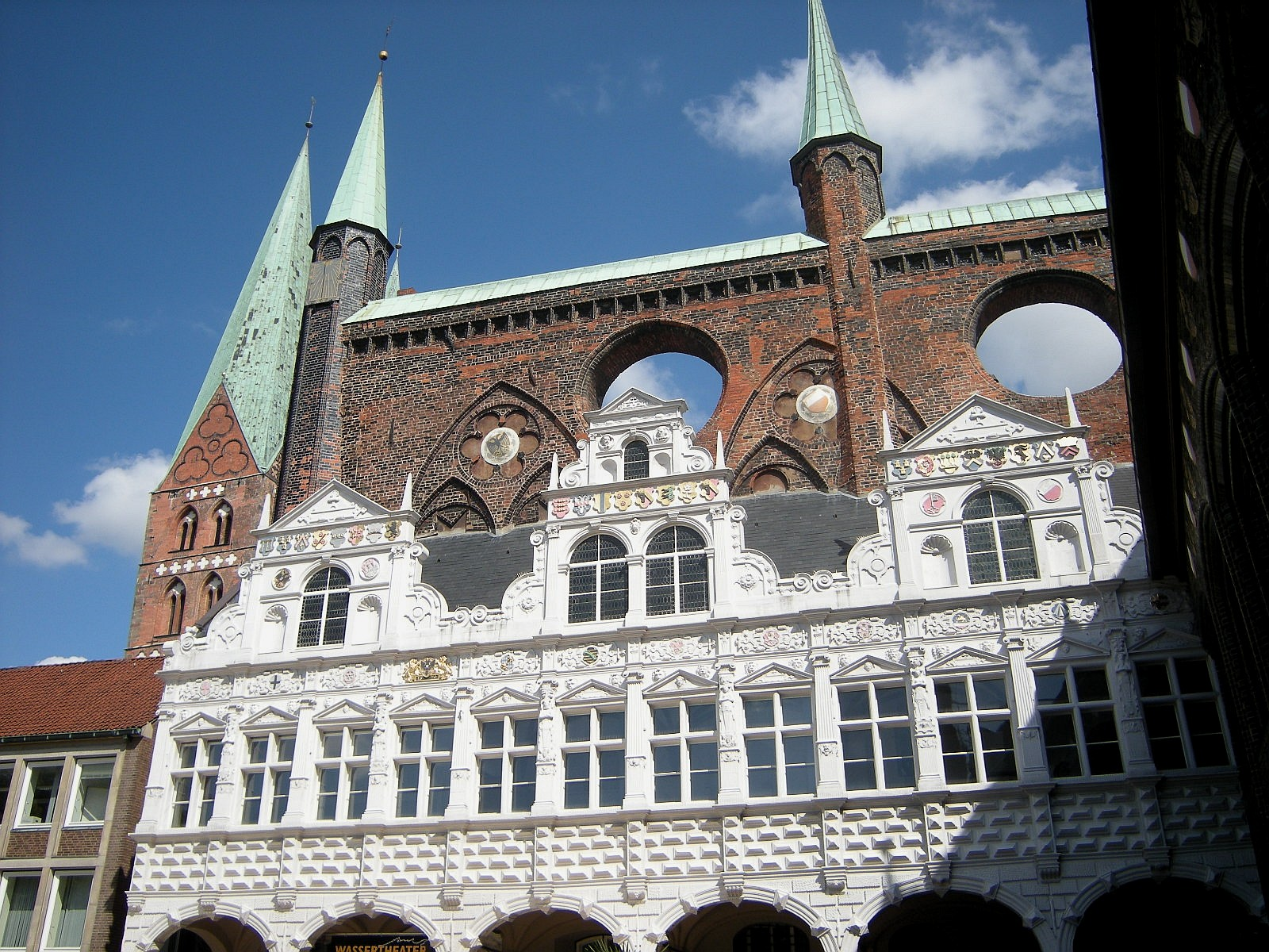 Town hall of Lübeck